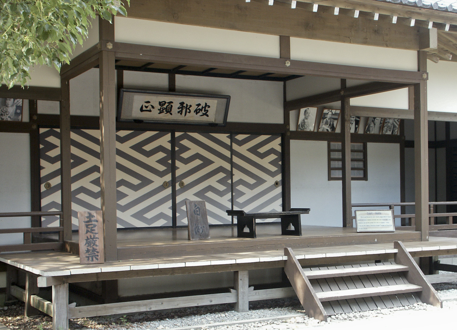 Toei Uzumasa Studios, Kyoto, Japan I contribute my rights in the file to the public domain. People and organizations retain rights to images in the file. Oshirasu